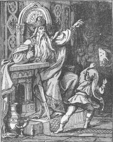 Holy Roman Emperor Frederick I